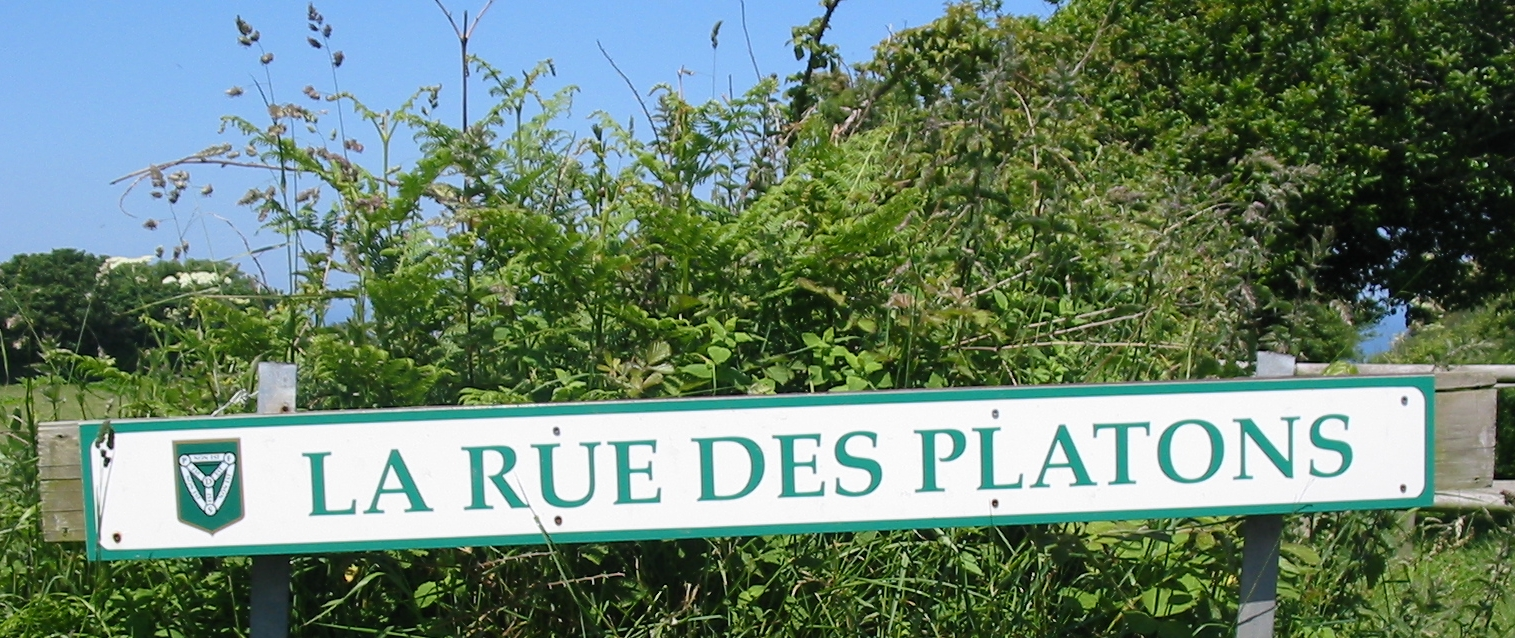 Sights of the Northern Parishes of Jersey Nrf: Eune touônnée au mais d'Mai siez les Nordgiens en Jèrri